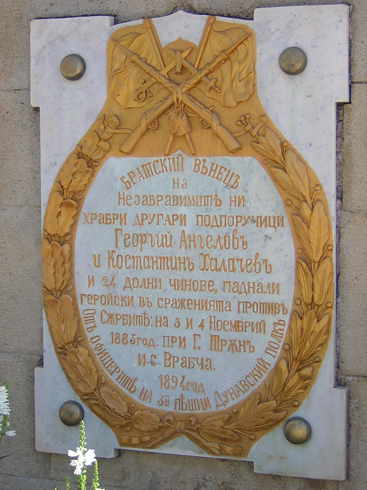 Monument to the Serbo-Bulgarian War of 1885, Tran, Bulgaria.